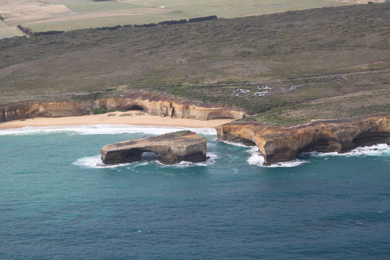 London Arch from the air, Great Ocean Road, Victoria